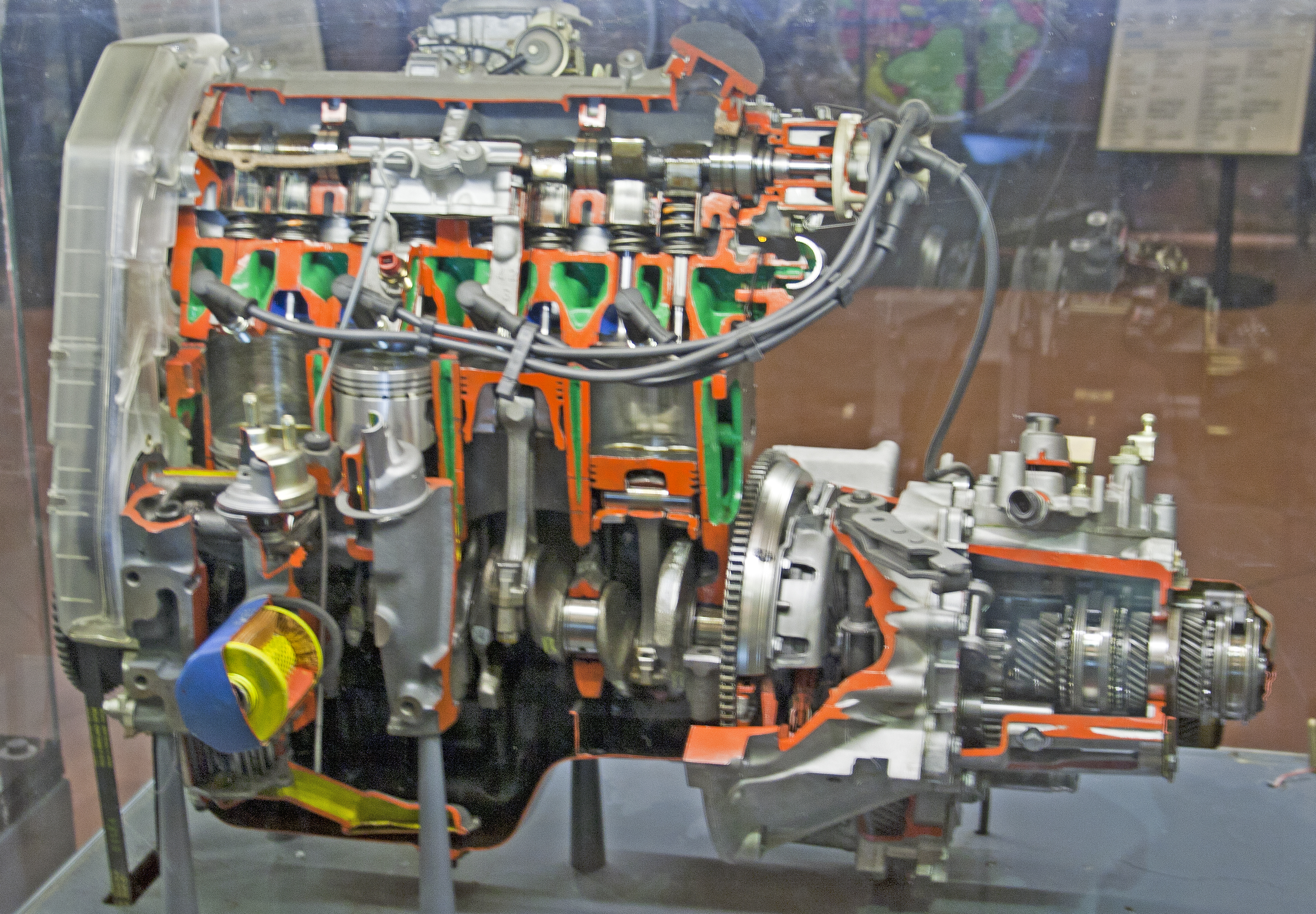 A cut up Fiat 1,581cc SOHC engine in the Rahmi M. Koç Museum of Transportation.